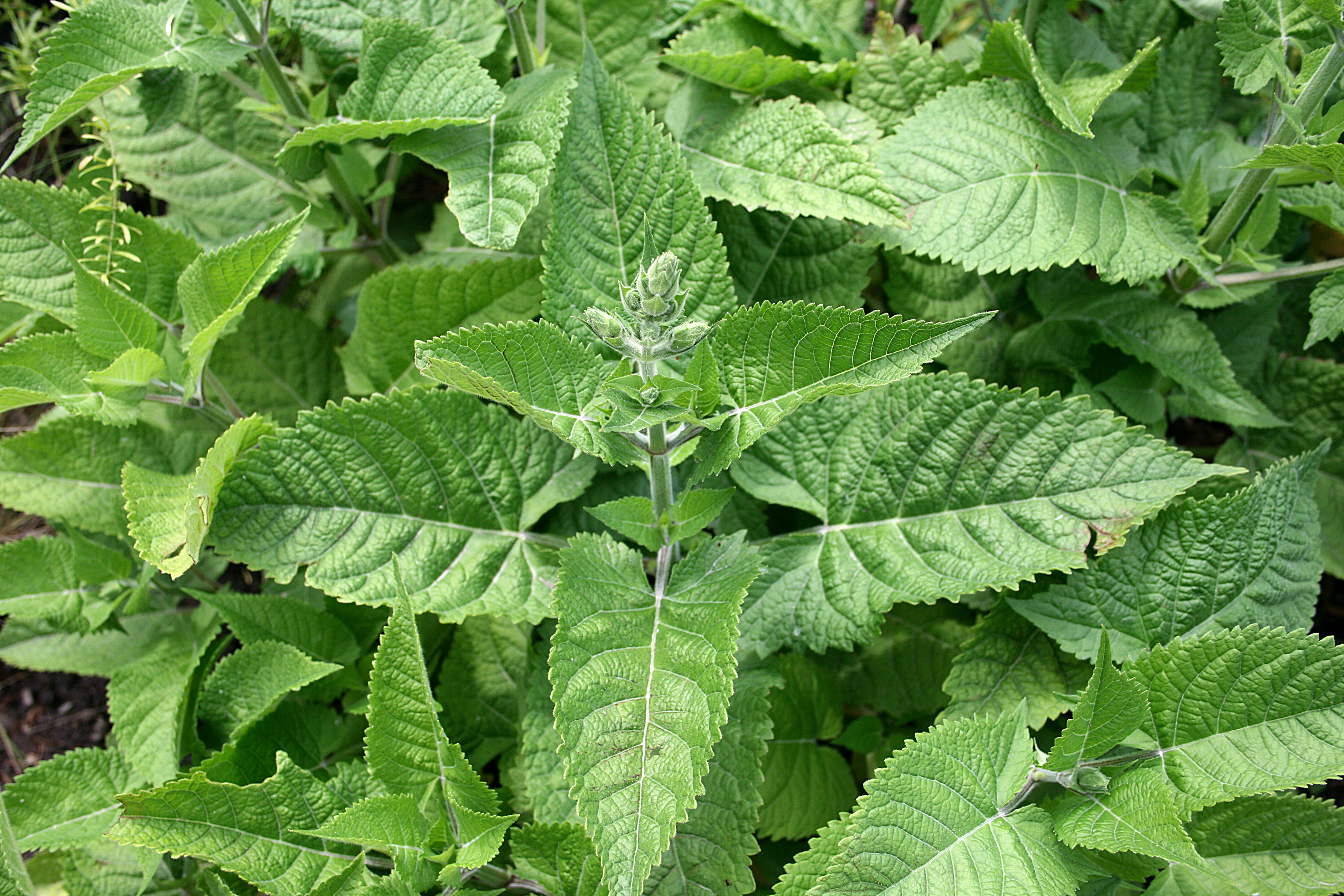 Glutinous Sage